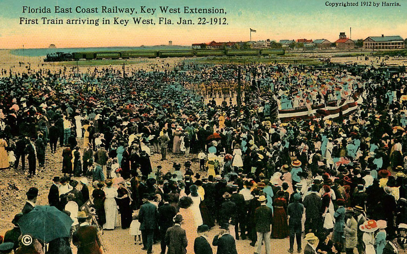 Color tinted postcard photo of the Florida East Coast Railway's first train arriving at Key West, Florida, on 22 January 1912. The first train carried the railroad's president and financier, Henry M. Flagler, in his private car.